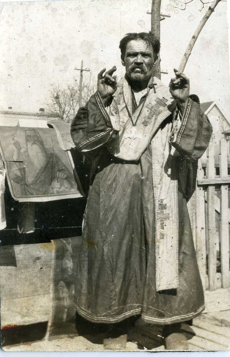 Makarii Marchenko arrived in Winnipeg, from Philadelphia, along with Bishop Seraphim in April 1903. He was Seraphim’s assistant, and upon the Bishop’s departure inherited the Seraphimite Church.